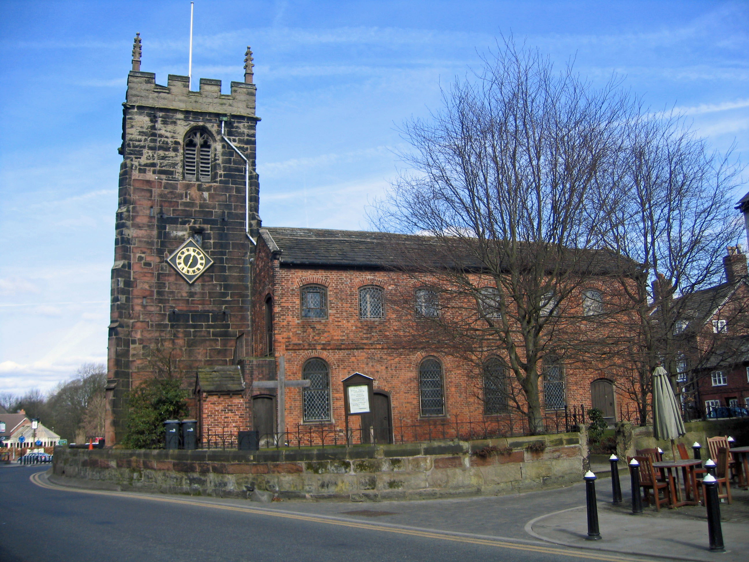 St Luke's parish church, Holmes Chapel, Cheshire, seen from the south